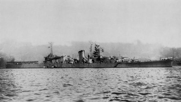 "Oyodo", light cruiser of the Imparial Japanese Navy, maybe at Kure Naval Base.